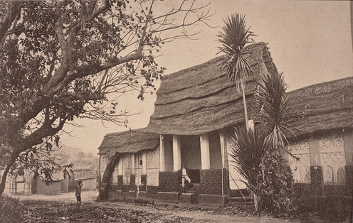 A British officer pictured with traditional Ashanti family dwelling. Architecture was typical of the Ashanti during the 18 to early 19th centuries.